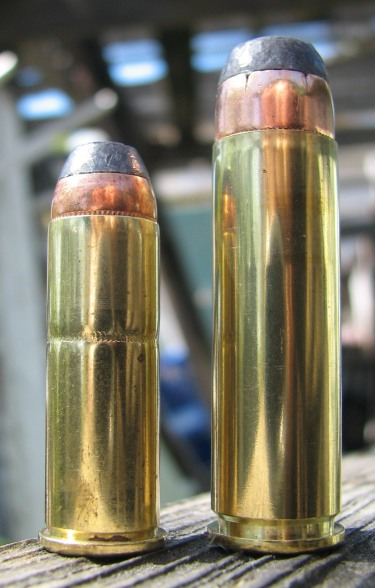 Comparison of a 44 Remington (left) and 500 Smith & Wesson Magnum Cartridges.